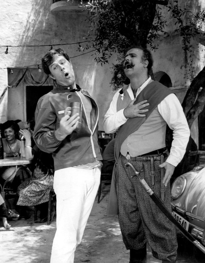 Photo of Robert Culp as Kelly Robinson and guest star Roger C. Carmel from the television program I Spy. The episode is "Red Sash of Courage".